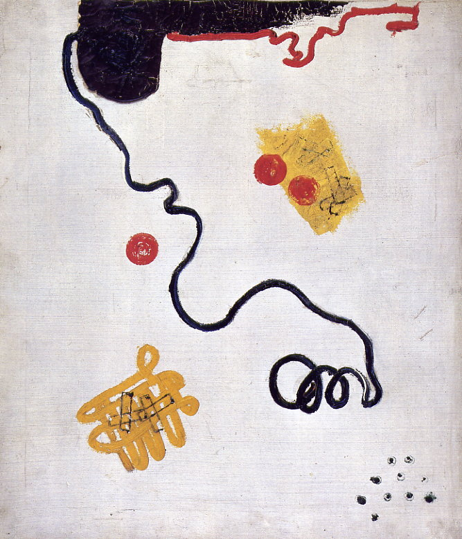 Ei Kyu: Marks, 1936. Oil on canvas, 53x46 cm. Miyazaki Museum of Art